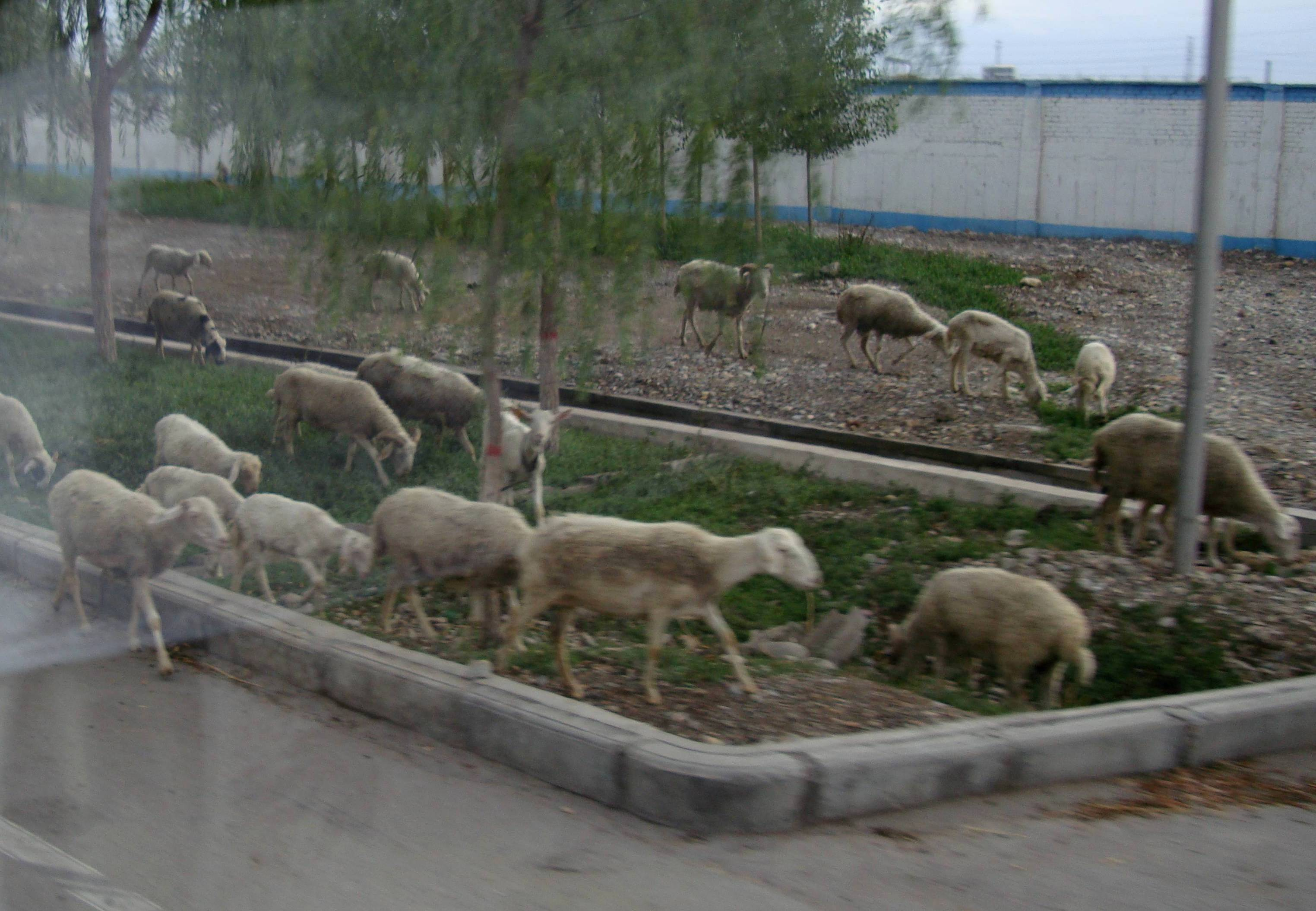 Sheep grazing beside a main road near Jiuquan in Gansu Province